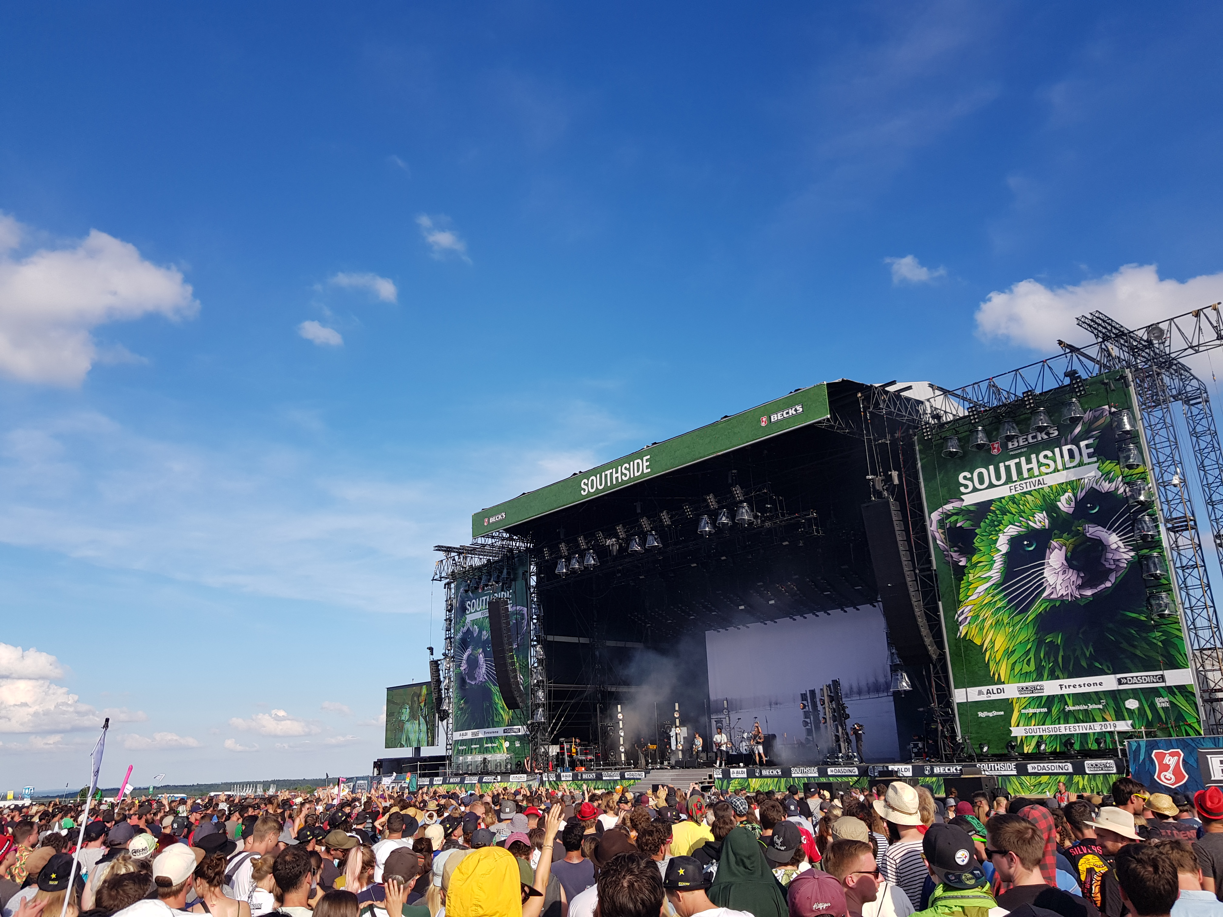 Bloc Party live on the Green Stage at Southside Festival 2019